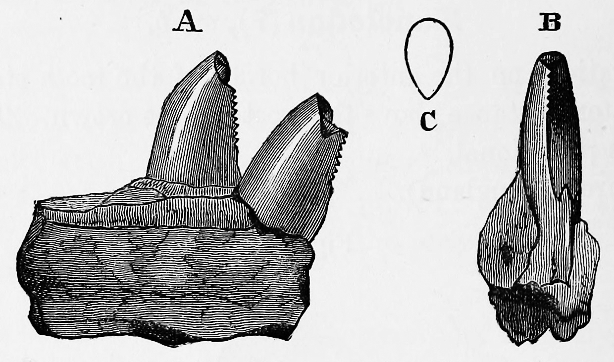 Holotype of Ankistrodon indicus (GSI coll.) in (A) lateral and (B) posterior views, with (C) a cross section of a tooth.